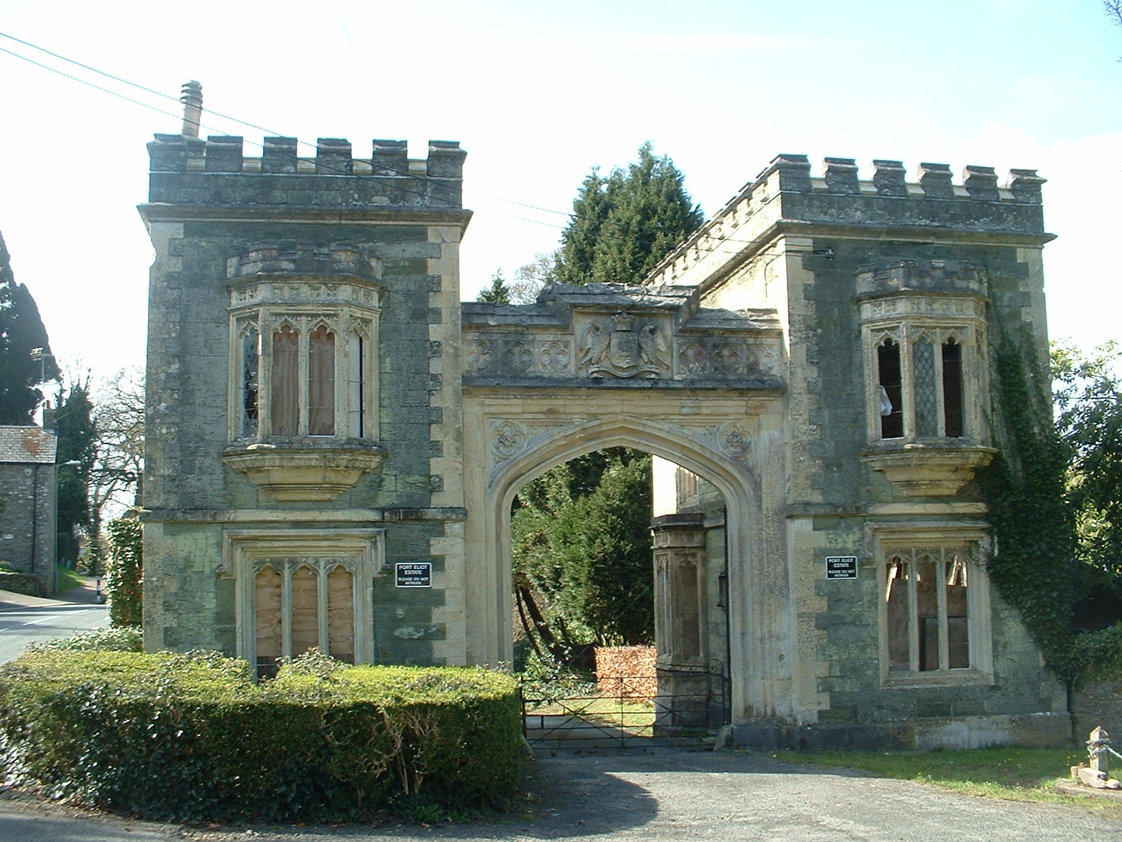 Town Lodge, Fore Street, St Germans, Cornwall, seen from the east. This is an entrance to Eliot House, Port Eliot.